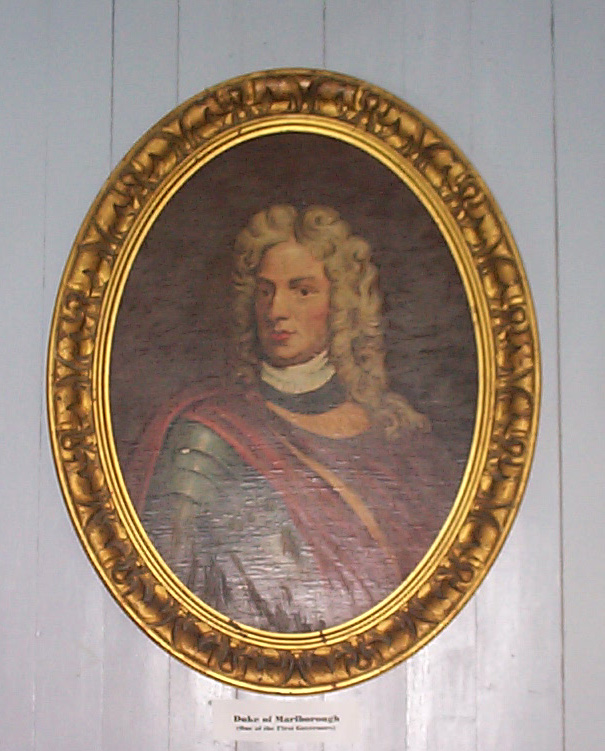 Oil painting of the Duke of Marlborough in historical Hudson's Bay Company building in Moose Factory